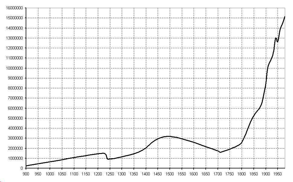 Magyars (Hungarians) population (900-1980). Pannonian Basin+USA. The data from 900 to 1600 is strongly controversial.